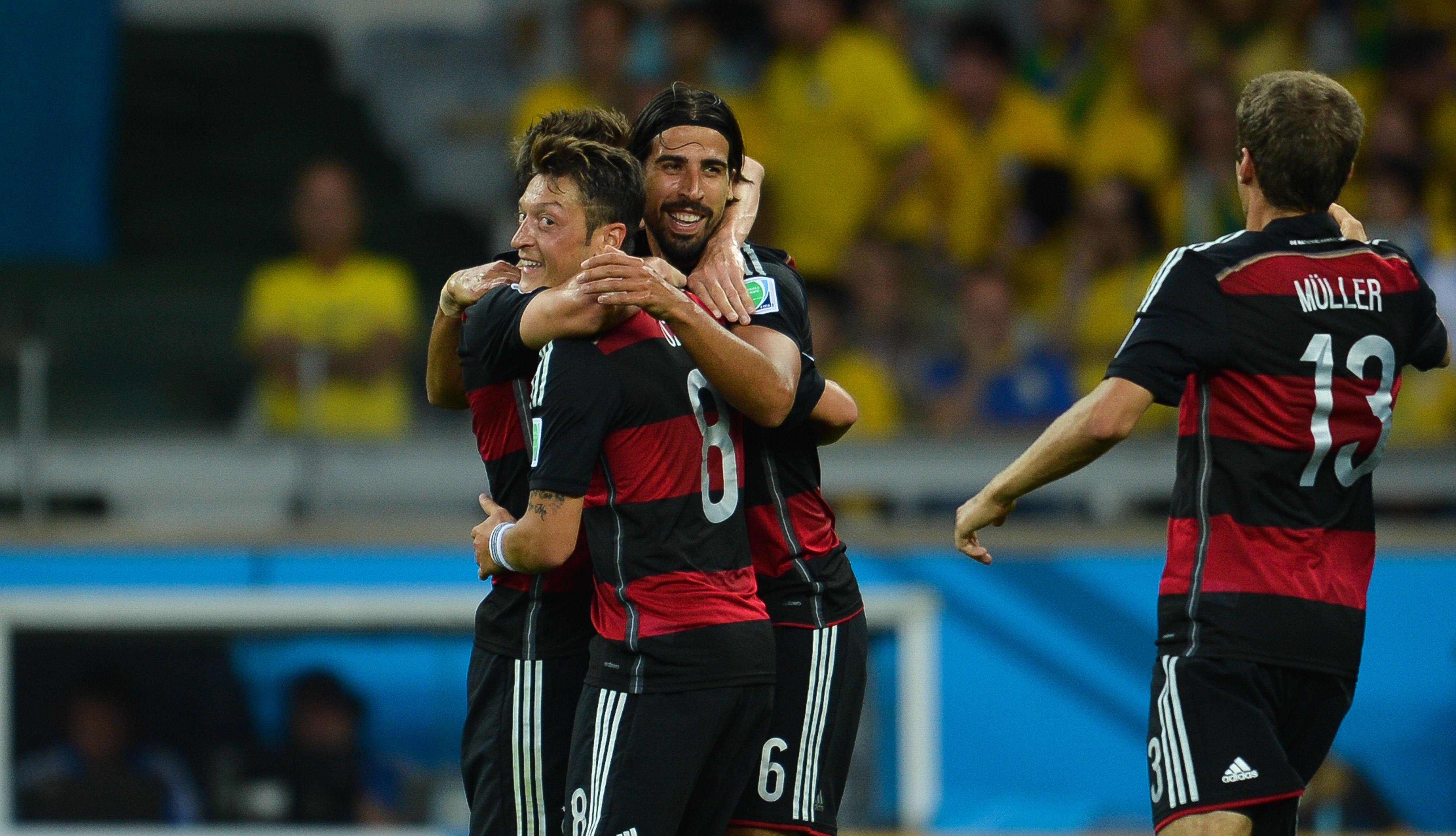 Brazil vs Germany, in Belo Horizonte